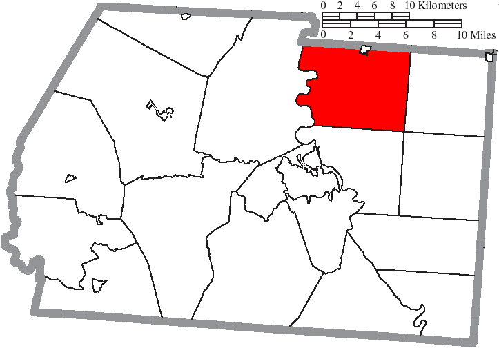 Map of the municipal and township boundaries of Ross County, Ohio, United States, as of the 2000 census, with the location of Green Township highlighted. Township borders are shown only in unincorporated areas in order to differentiate incorporated and unincorporated areas more clearly.